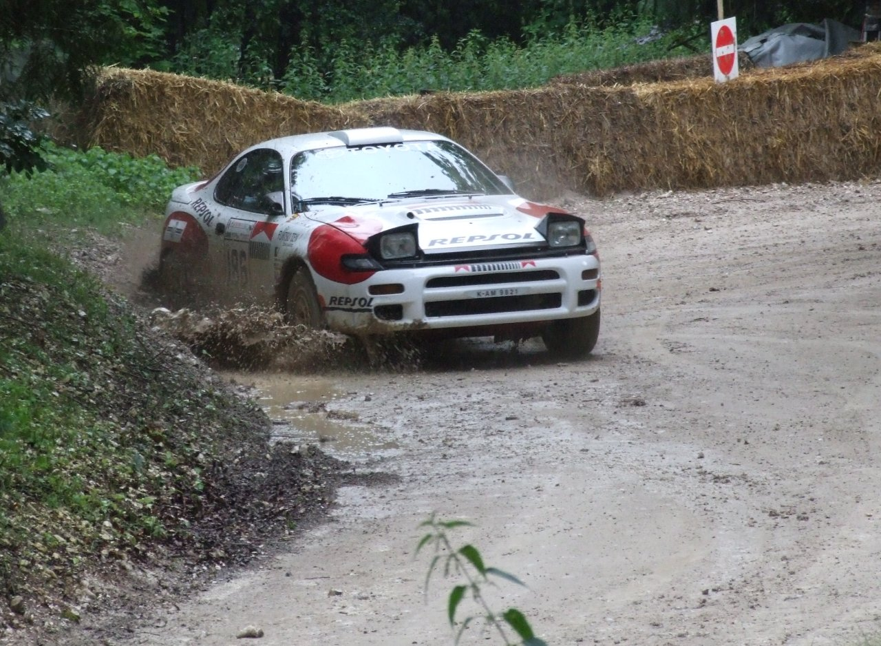 Toyota Celica GT-Four RC (ST185) in action on Rally Stage at the Festival of Speed 2007. Making a speedy recovery from a slide into the bank after the downpour on Saturday turned the course into an ice rink.